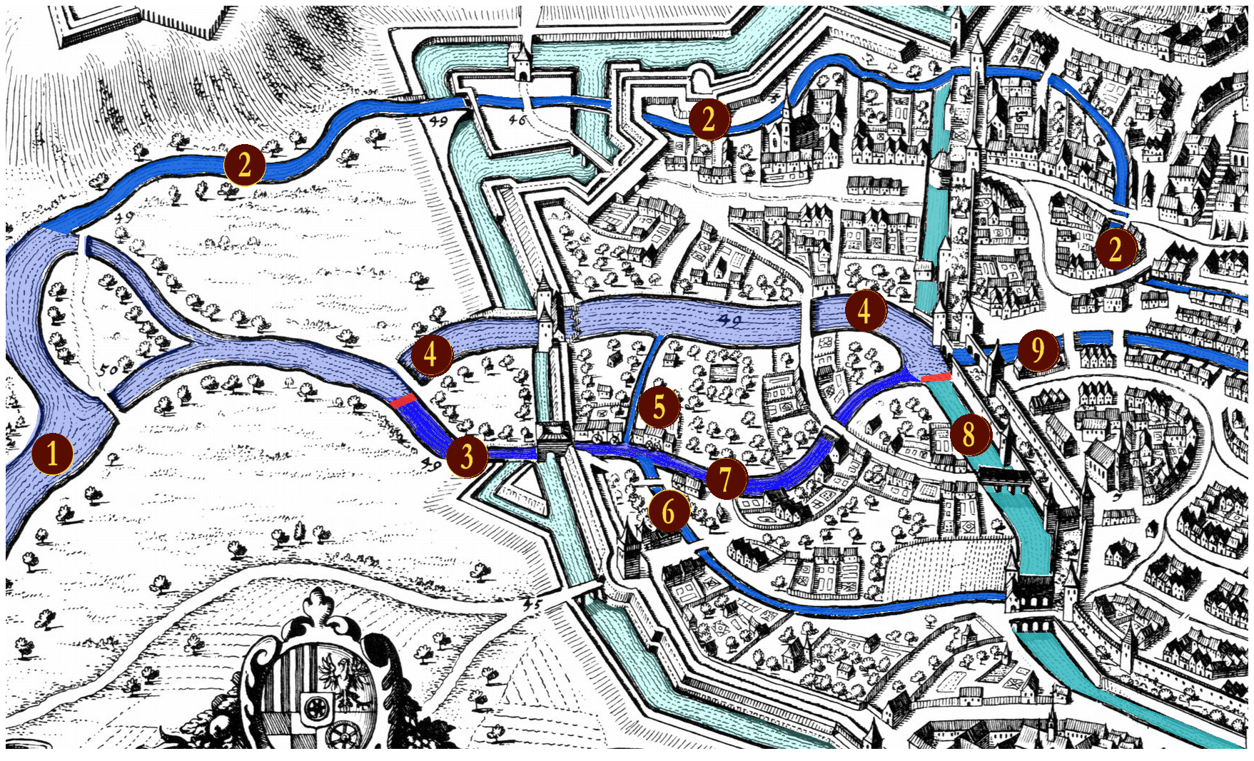 The city of Erfurt in Thuringia (Merian) with marking of the water-managment system.